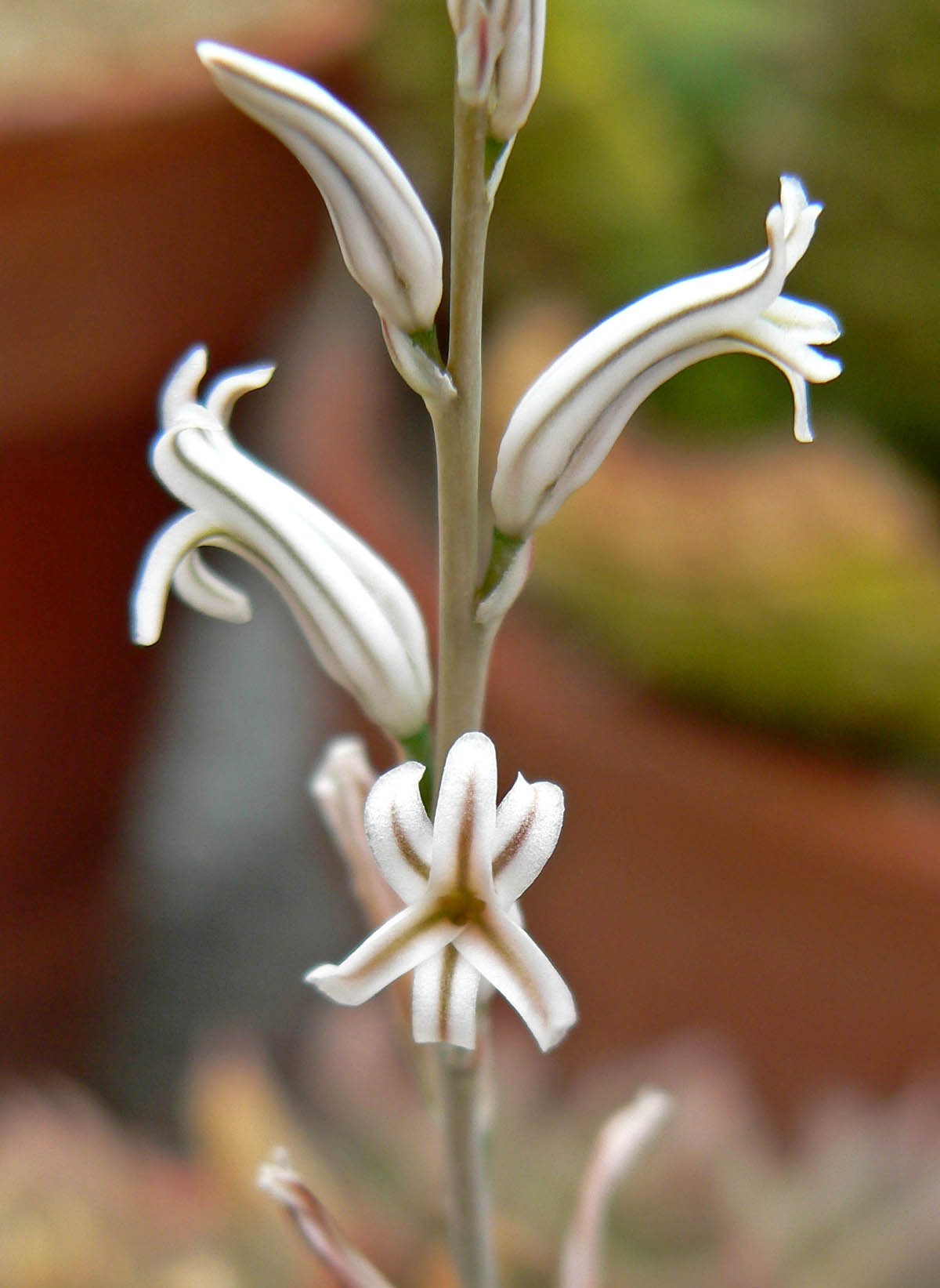 Photo of Haworthia cymbiformis at the University of California Botanical Garden